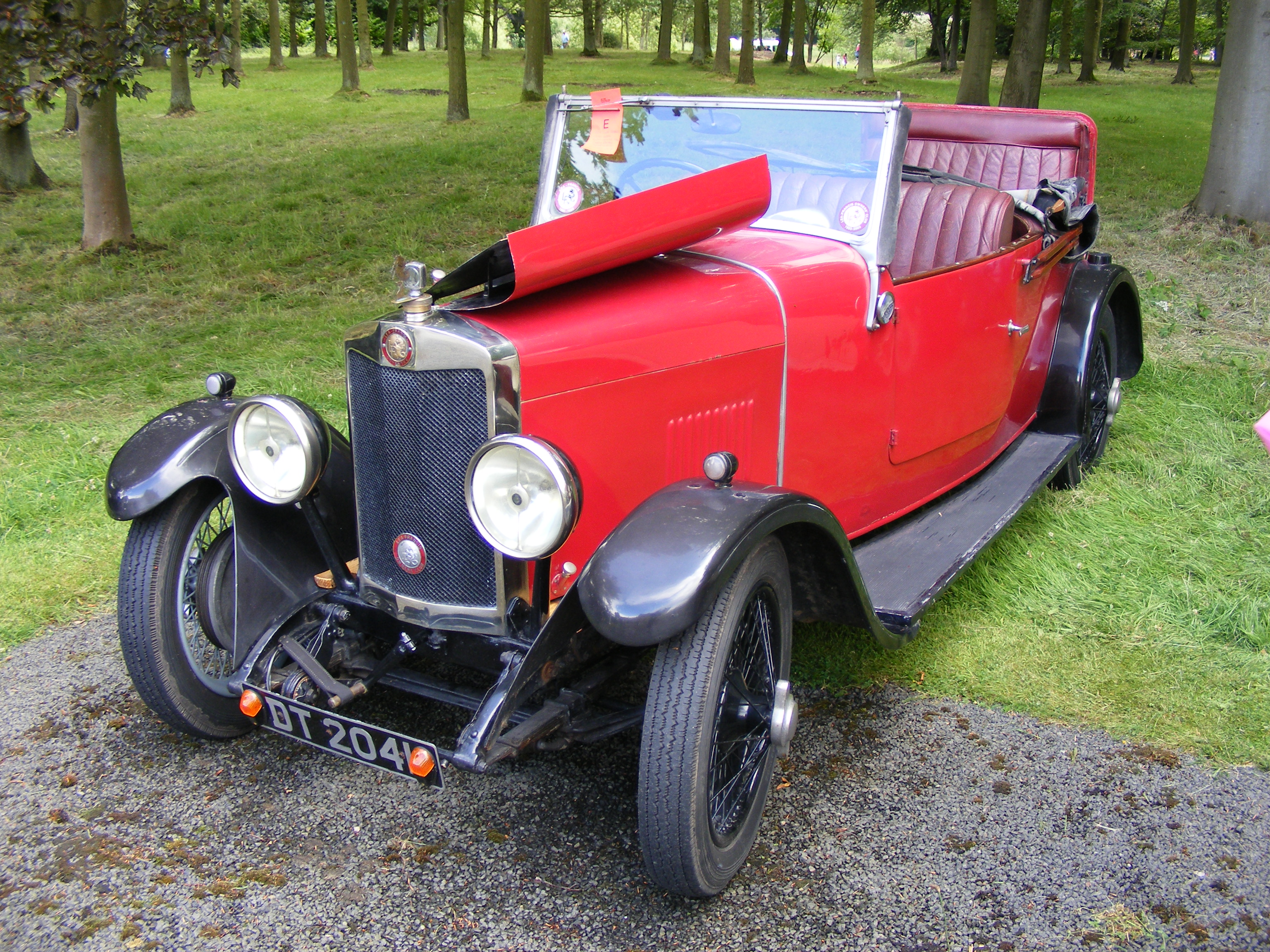 1929 Lea-Francis 12 hp O-type DT2041 (DVLA) first registered December 1929, 1479 ccThe Blagdon Show 12 July 2009